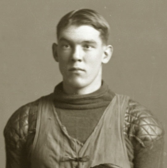 Photograph of George M. Lawton